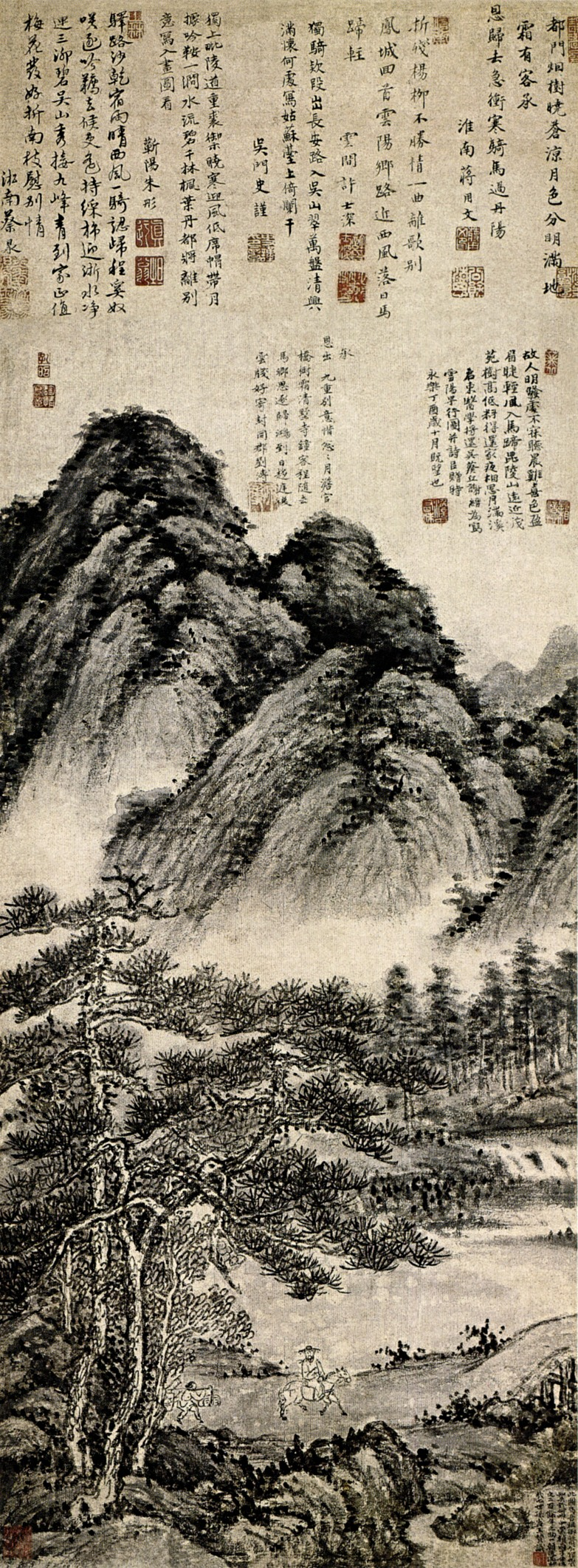 Traveling Early in Clouds and Sun, hanging scroll, Ink on paper, 102.1 x 47.5 cm. Located at the Shanghai Museum.